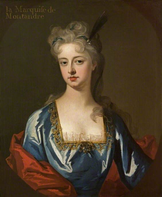 Portait of Mary Anne Spanheim (d.1739), Wife of François de la Rochefoucauld, Marquis de Montandre, Field Marshal in the Army of William III